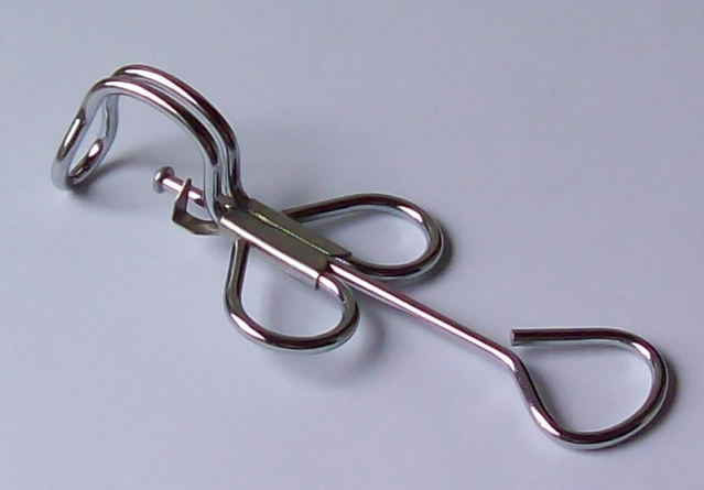 Cherry pitter (stoner).